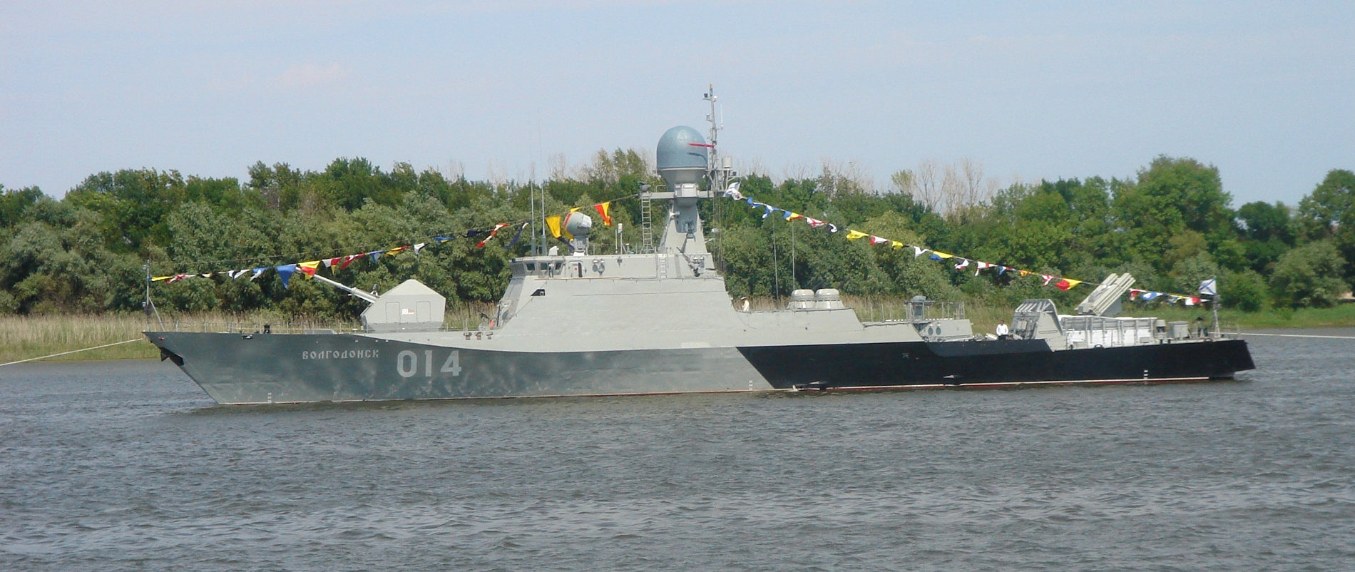 Corvette from Caspian Flotilla